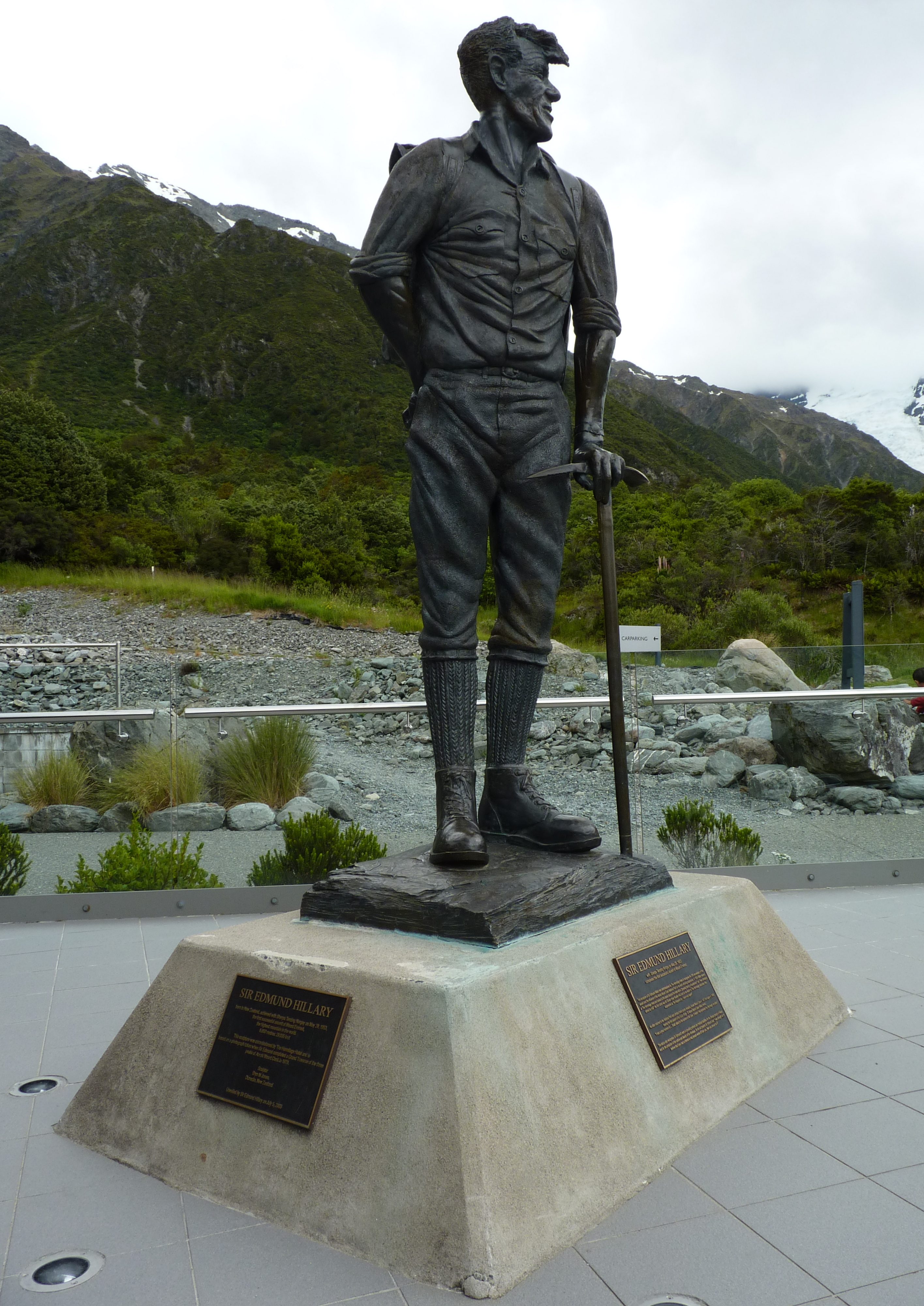 Edmund Hillary statue. Aoraki/Mount Cook National Park, South Island, New Zealand